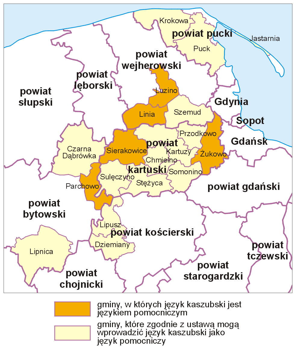 Official/auxiliary Kashubian language in communes in Pomeranian Voivodeship